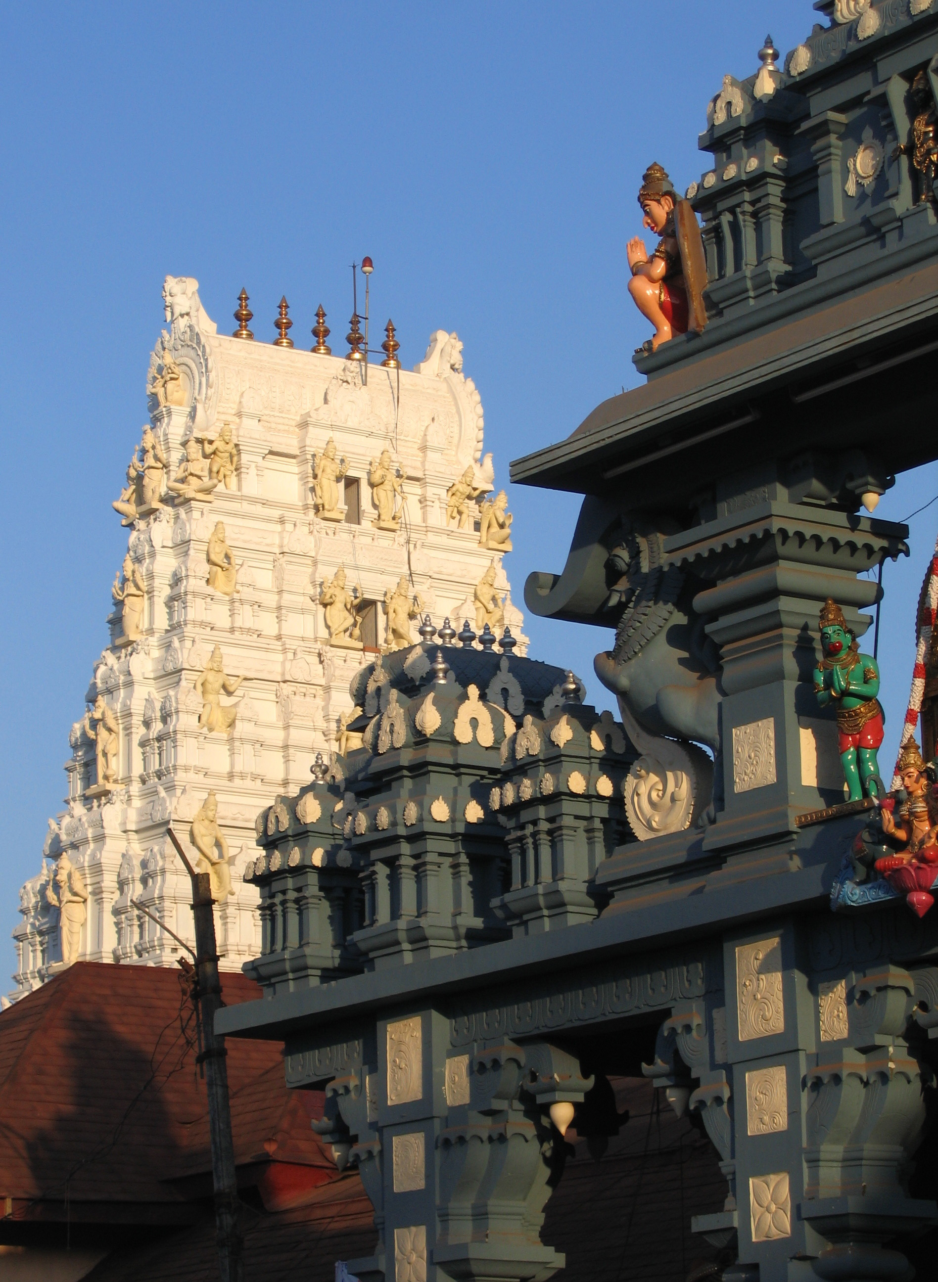 Udupi - Scenes of Sri Krishna Temple